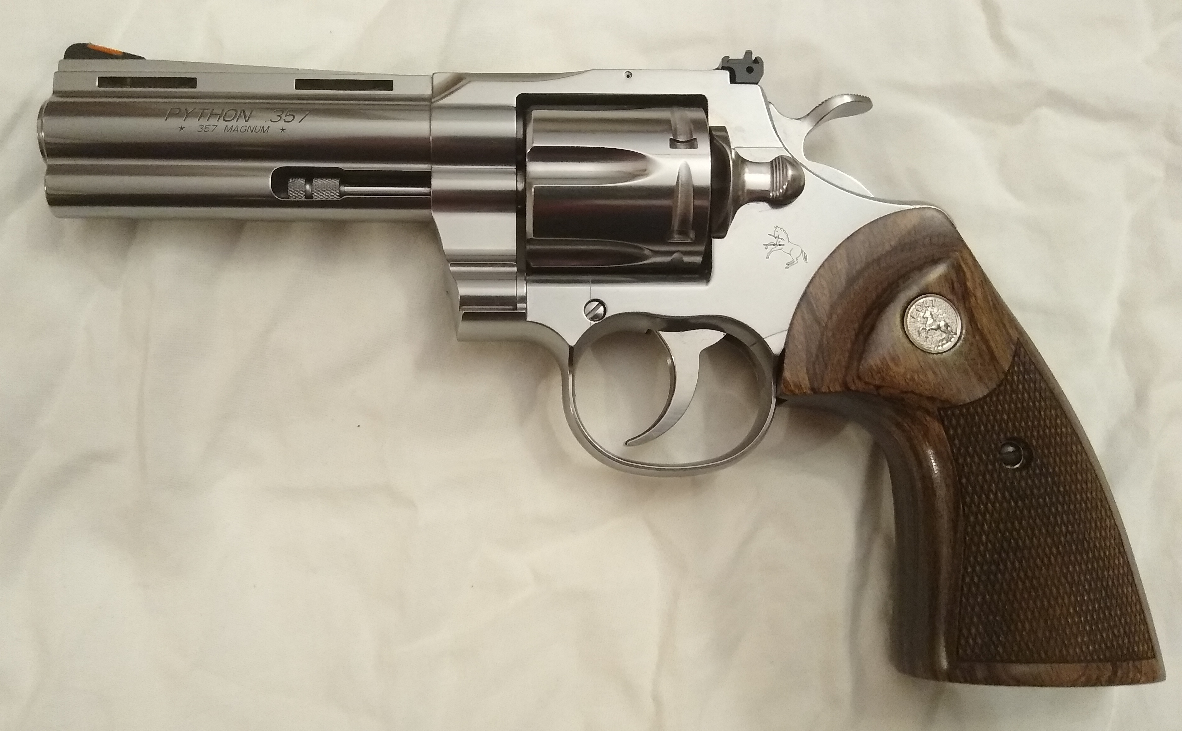 Colt Python, 2020, 4-inch barrel, stainless. .357 Magnum.